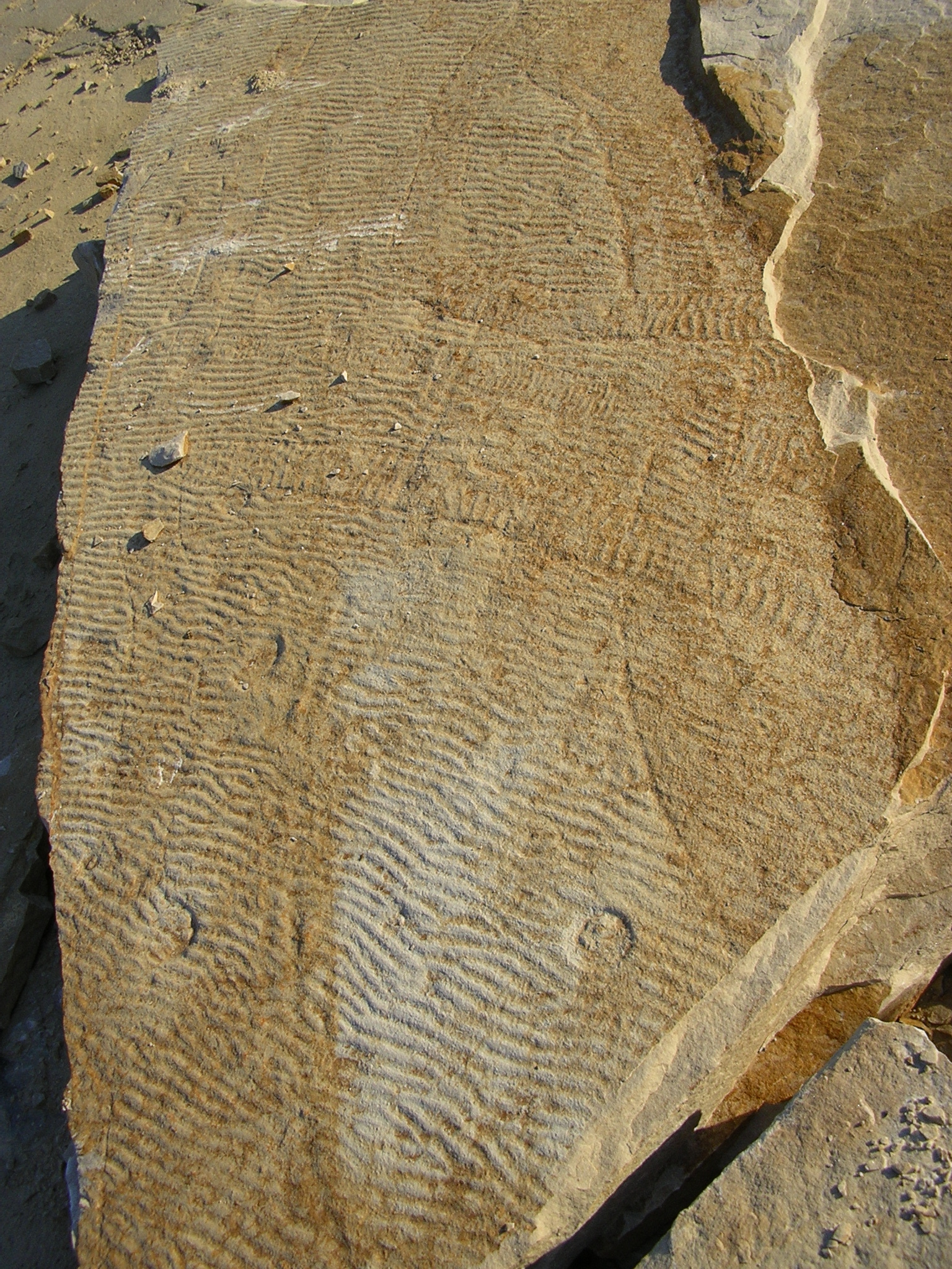 Stranded scyphozoans with Climactichnites trackways from Blackberry Hill, central Wisconsn; Cambrian; Elk Mound Group Kenneth C Gass (talk) 06:00, 26 July 2012 (UTC)